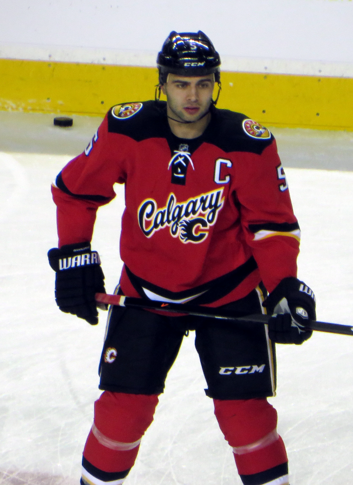 Calgary Flames defenceman Mark Giordano prior to a National Hockey League game against the New York Rangers.